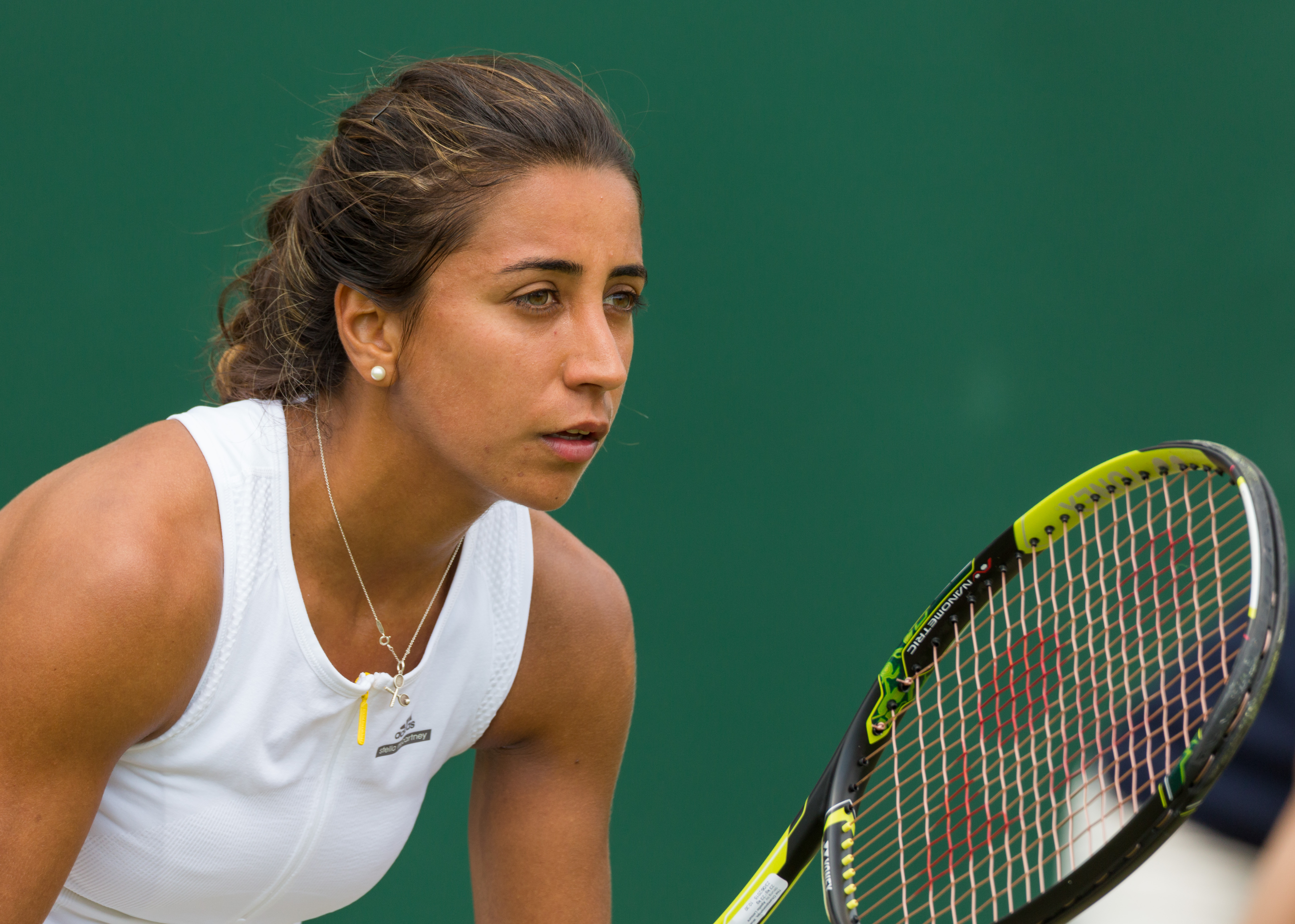 Çağla Büyükakçay competing in the first round of the 2015 Wimbledon Qualifying Tournament at the Bank of England Sports Grounds in Roehampton, England. The winners of three rounds of competition qualify for the main draw of Wimbledon the following week.